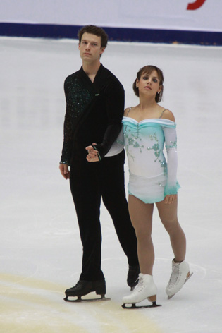 Meagan Duhamel and Craig Buntin at the 2009 Cup of China.